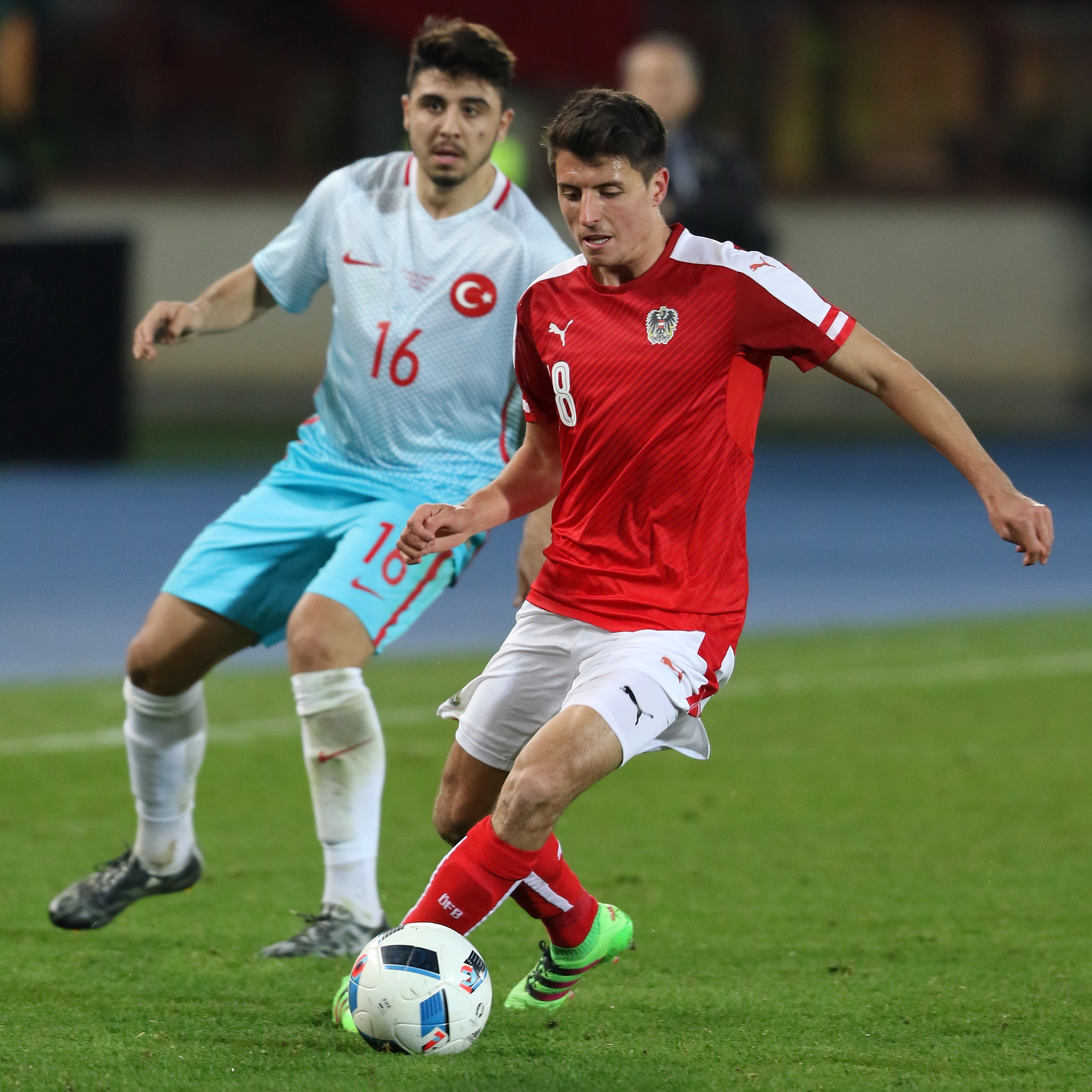 Friendly match – Austria (red shirts) vs. Turkey (blue shirts) 1–2 (1–1) on 2016-03-29 in Ernst-Happel-Stadion, Vienna – The photo shows Alessandro Schöpf (right) and Ozan Tufan (left).